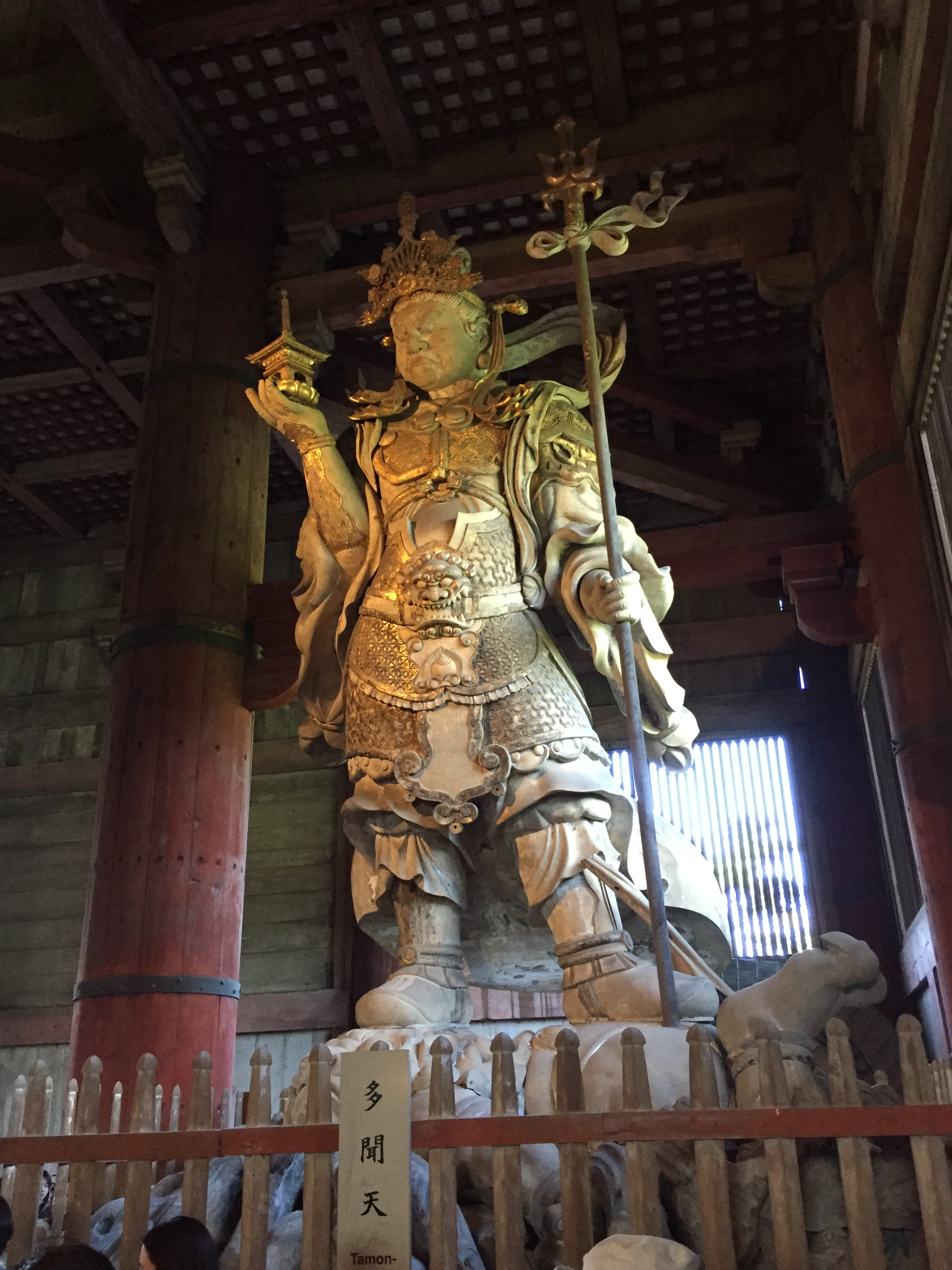 Tamonten Guardian in the Todaiji temple, Nara, Japan.